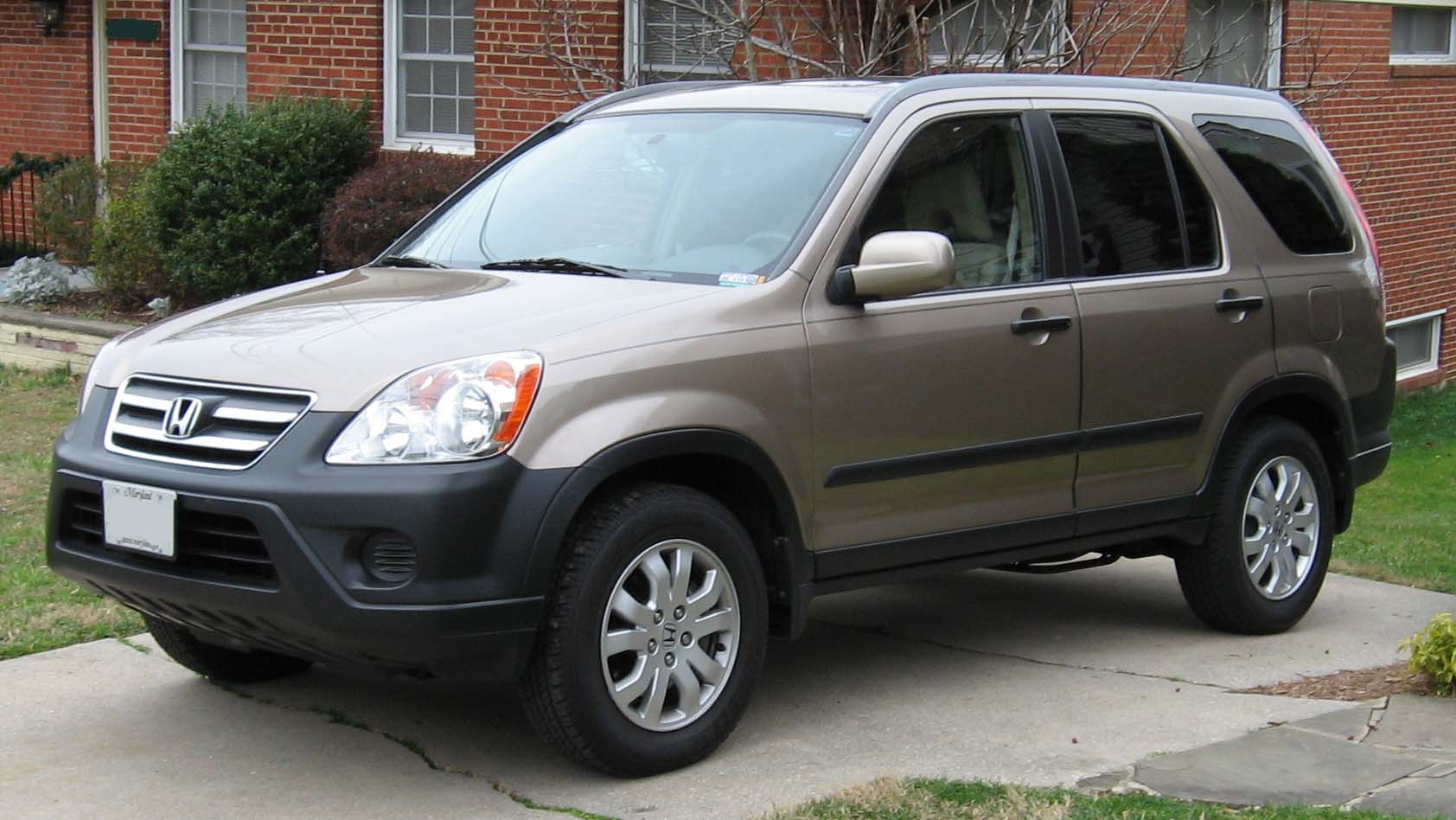 2004-2005 Honda CR-V photographed in USA.